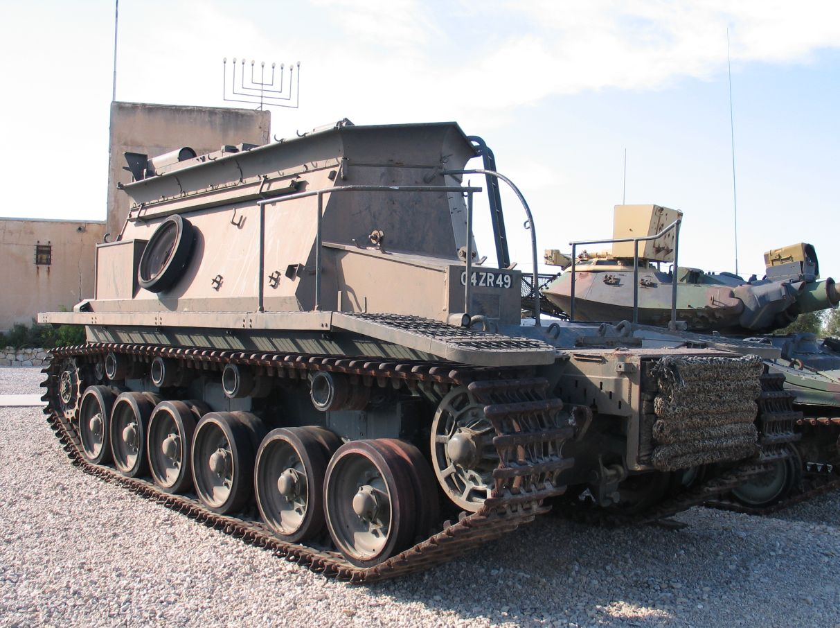 Description: Centurion BARV (Beach Armoured Recovery Vehicle) in Yad la-Shiryon Museum, Israel. Source: Photo by me, User:Bukvoed.